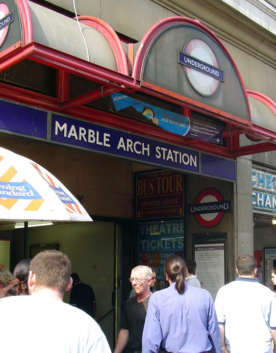 London Underground: Marble Arch station Photo taken on 26 July 2004 by User:Fizzerbear